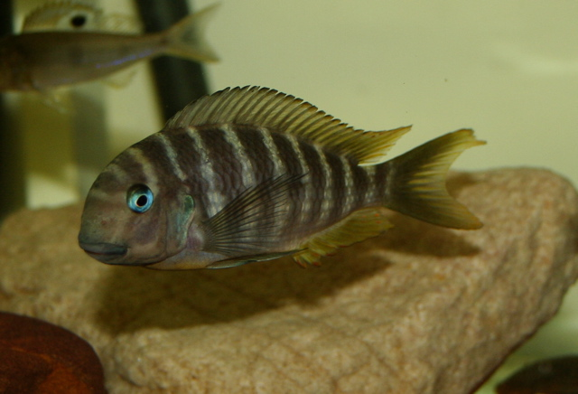 Tropheus polli Photo: Dr David Midgley Own photo Category:Cichlid images